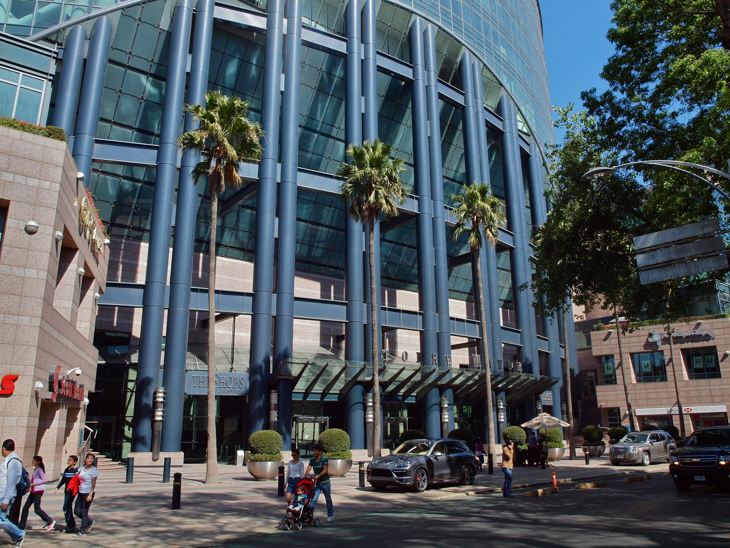 Entrada Torre Mayor